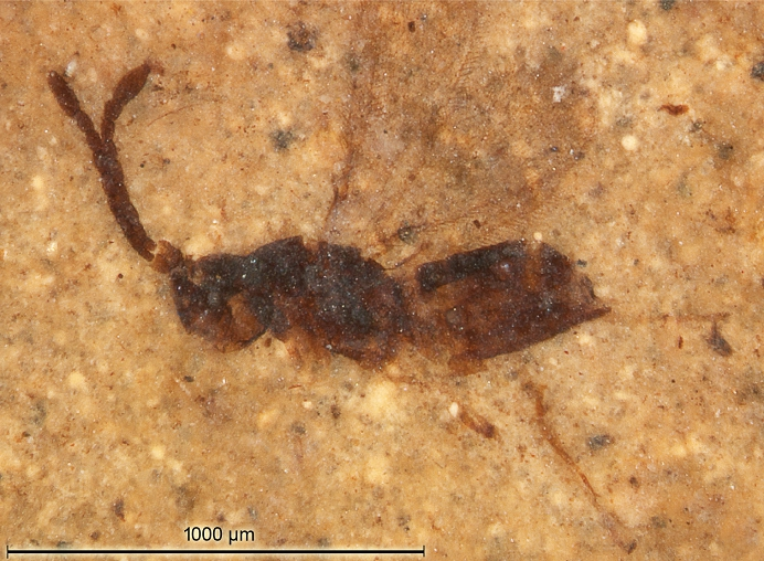 Compression fossil of Gonatocerus greenwalti, a mymarid wasp. From the Kishenehn Formation of Montana (Lutetian age).